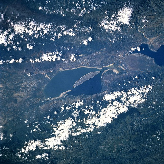 Lake Enriquillo, Dominican Republic - September 1993 North is right below